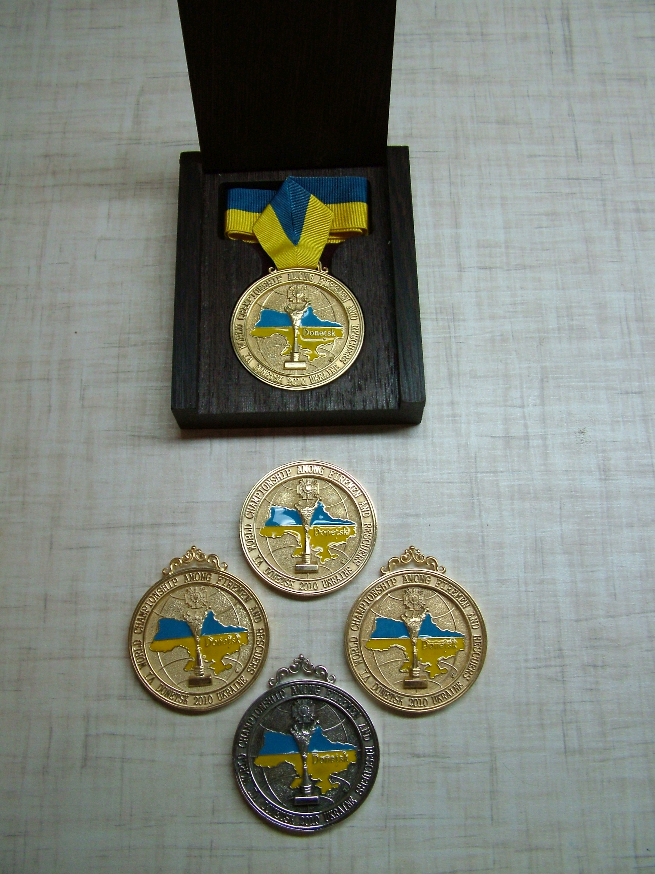 Наградной комплект